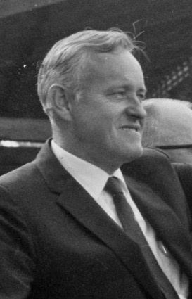 The Charles A. Sprague Tree Seed Orchard is located near Merlin, Oregon. Attendees to the ceremony on Oct. 23, 1969, included Oregon Governor Tom McCall (passenger seat), his wife Audrey (back seat) and Oregon State Senator E.D. "Deb" Potts (driver seat). BLM Photo by Robert Hostetter.